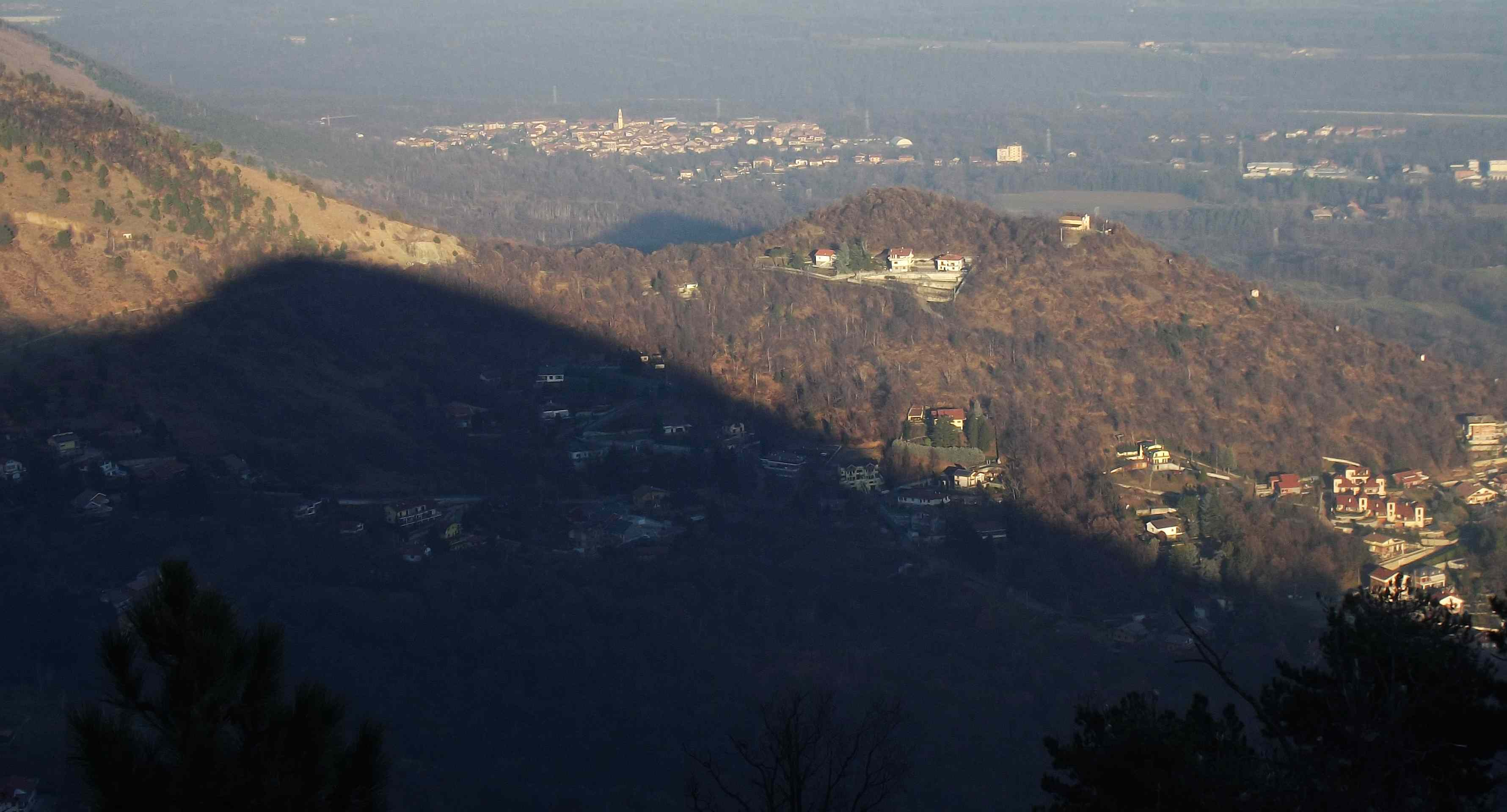 Monte Baron shadow on Givoletto (TO, Italy), in the background La Cassa